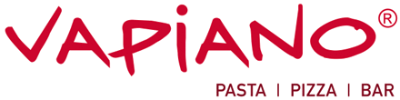 160831 VAPIANO Logo